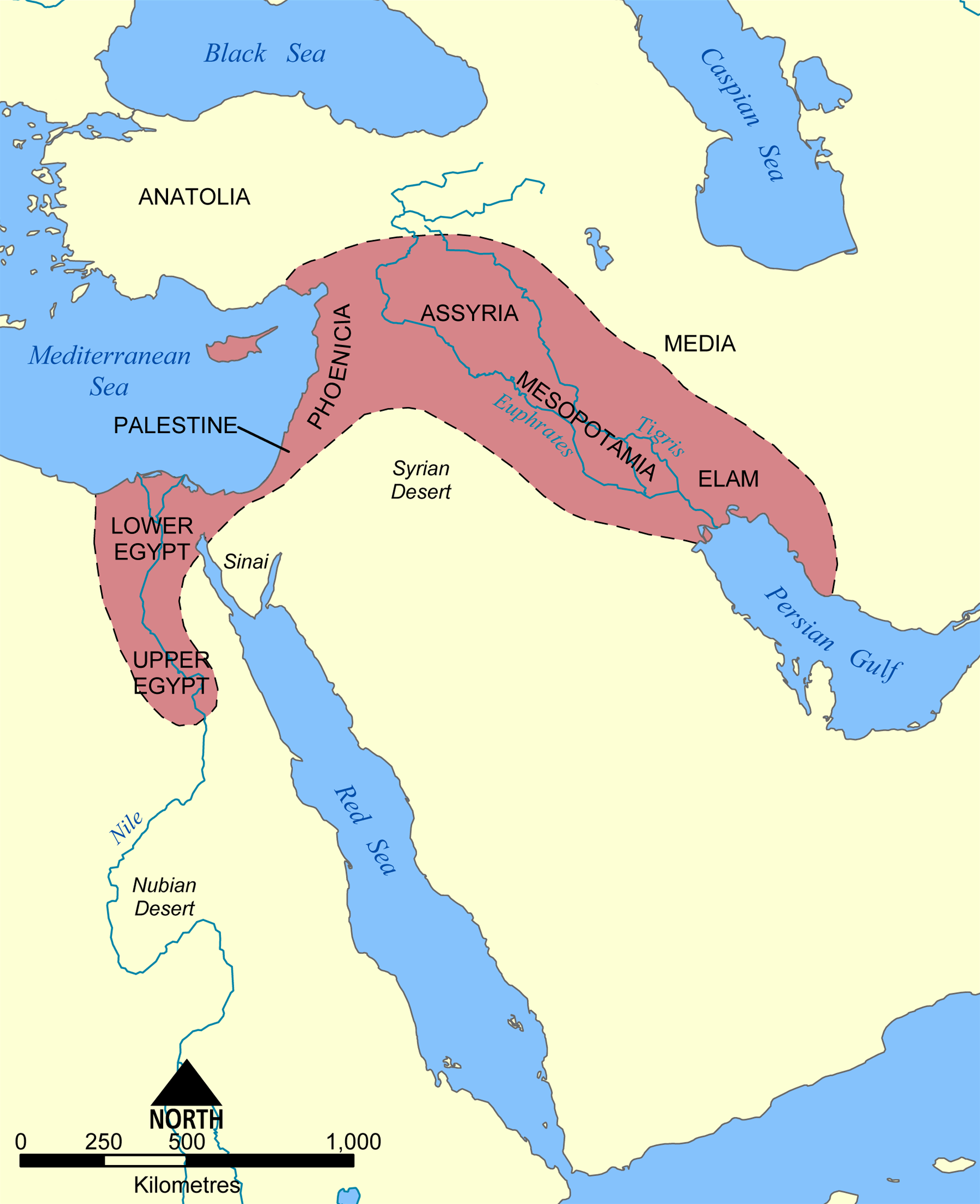 This map shows the location and extent of the Fertile Crescent, a region in the Middle East incorporating Ancient Egypt; the Levant; and Mesopotamia.